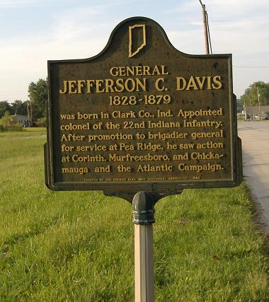 Marker for the Union general named Jefferson C. Davis, in Memphis, Indiana, United States. Category:Images of Clark County, Indiana.